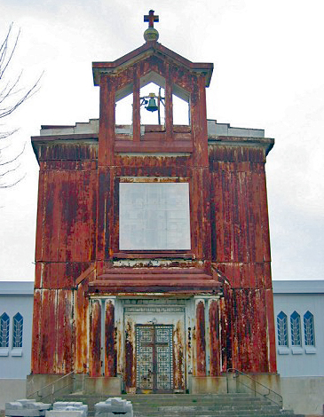 Eglise Sainte Barbe de Crusnes (Meurthe-et-Moselle), France